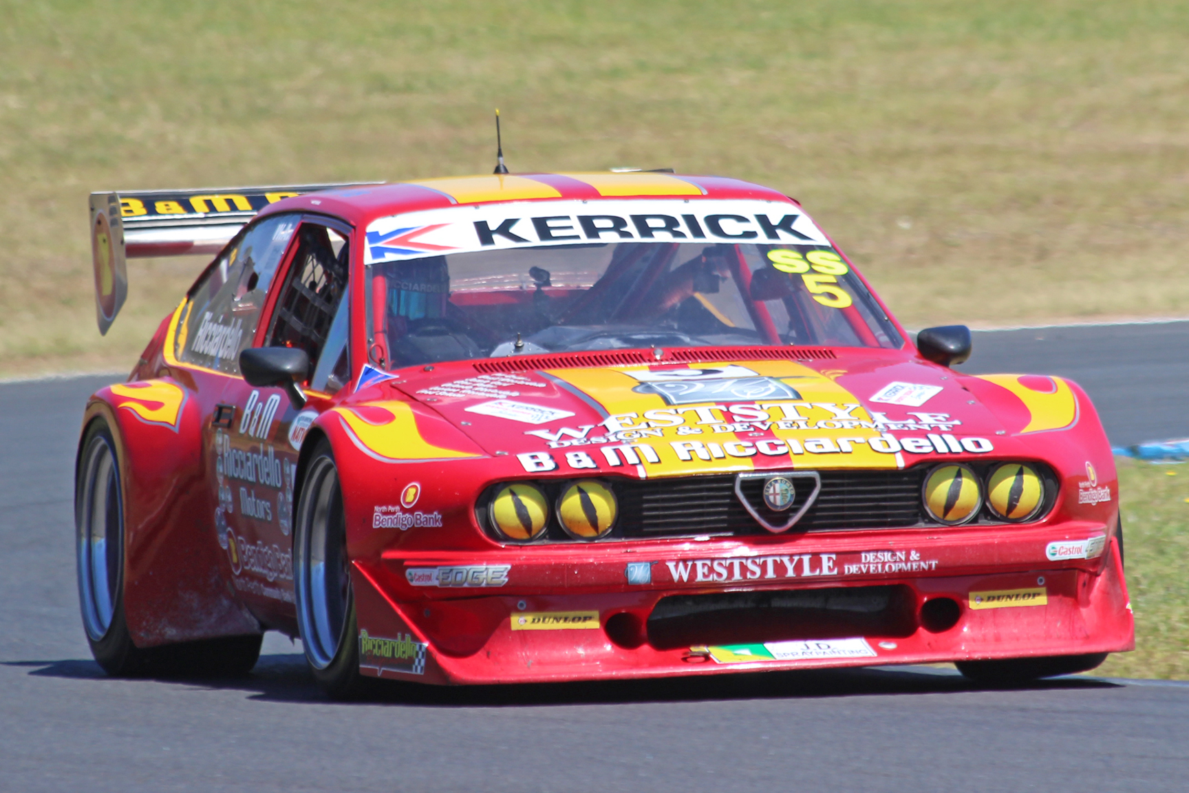 Tony Ricciardello (Alfa Romeo GTV) competing in Round 5 of the 2014 Kerrick Sports Sedan Series at the Shannons Nationals meeeting held at Sydney Motorsport Park.